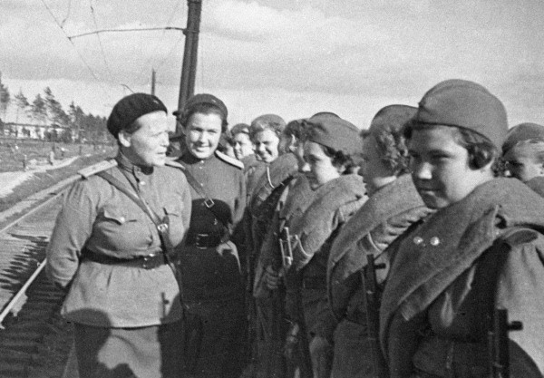 “Before leaving for the front”. Head of the Central Sniper School's political department talks to girls leaving for the front.